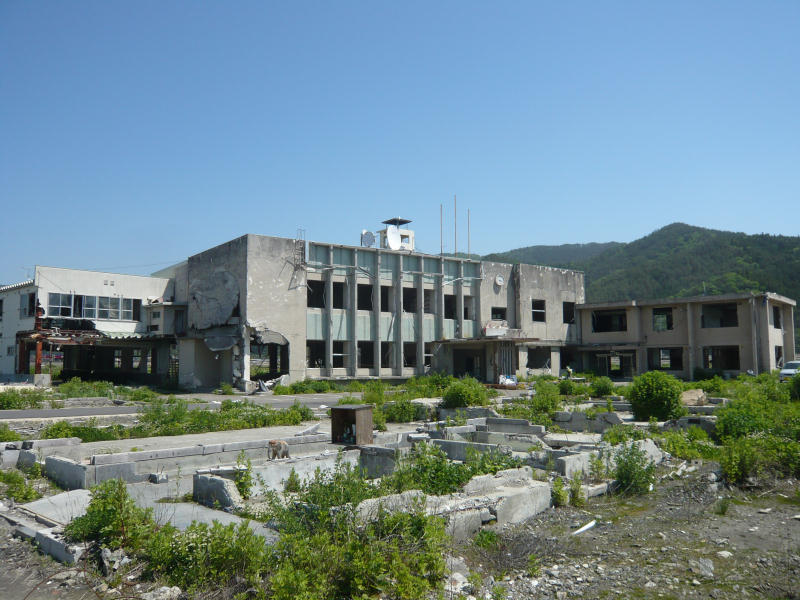 Tsunami-stricken Otsuchi Town Hall in Iwate Prefecture, Japan